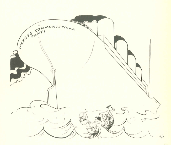 caricature from the Swedish newspaper Folkets Dagblad Politiken from 1929, illustrating the split in the Communist Party of Sweden. The drawing portrays the Kilbom-led Communist Party of Sweden as a mighty cruiser, sailing away from a small boat labelled 'Sillén Family' (i.e. the Comintern-affiliated Communist Party of Sweden). The character in the front of the Sillén boat is Sven Linderot.